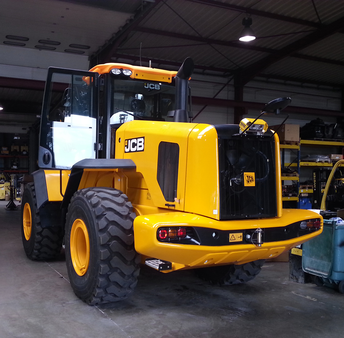 Wheel Loader